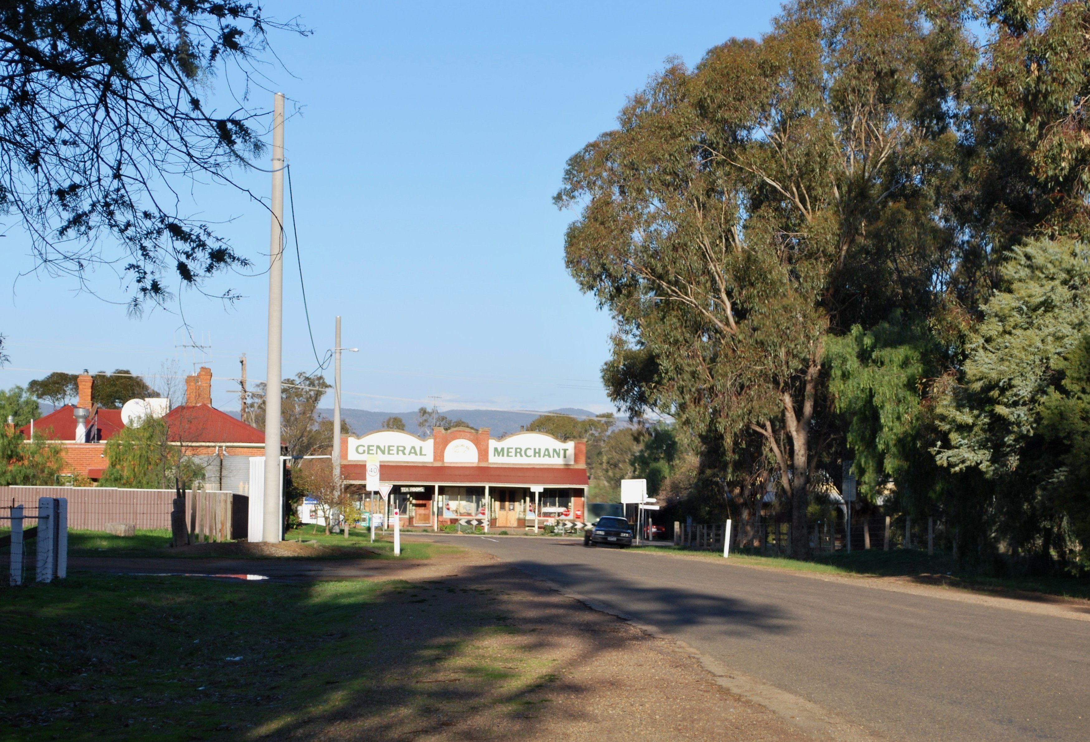 Entering Thoona, Victoria from the west. The Warby Range can be seen behind the general store.